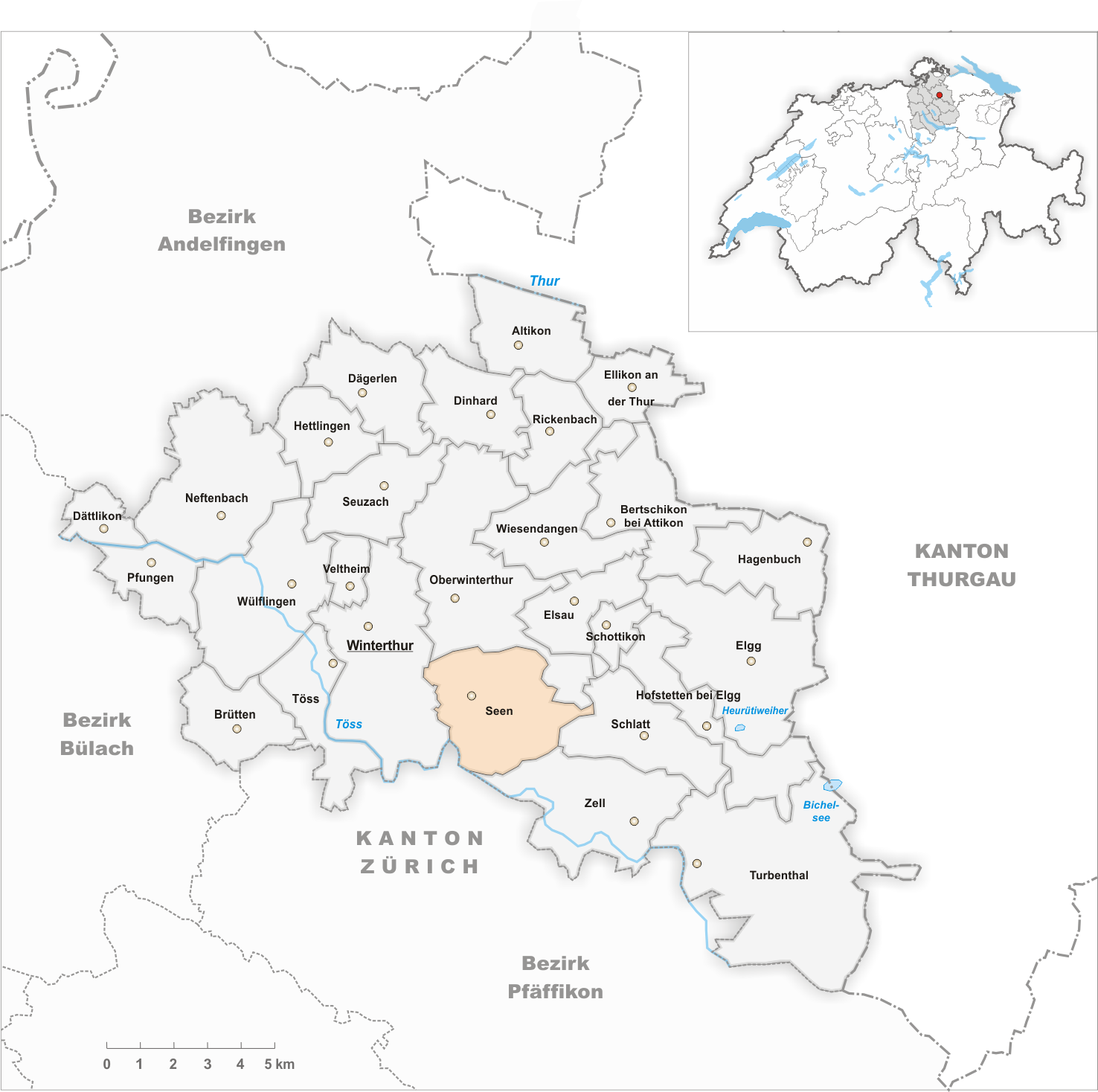 Municipality Seen